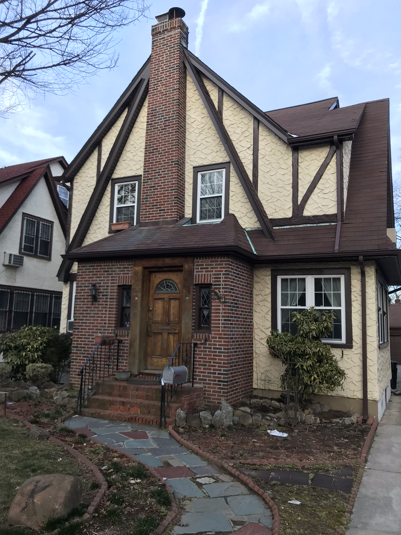 Photograph of 85-15 Wareham Place in Jamaica Estates (Queens), New York. The childhood home of President Donald J Trump.